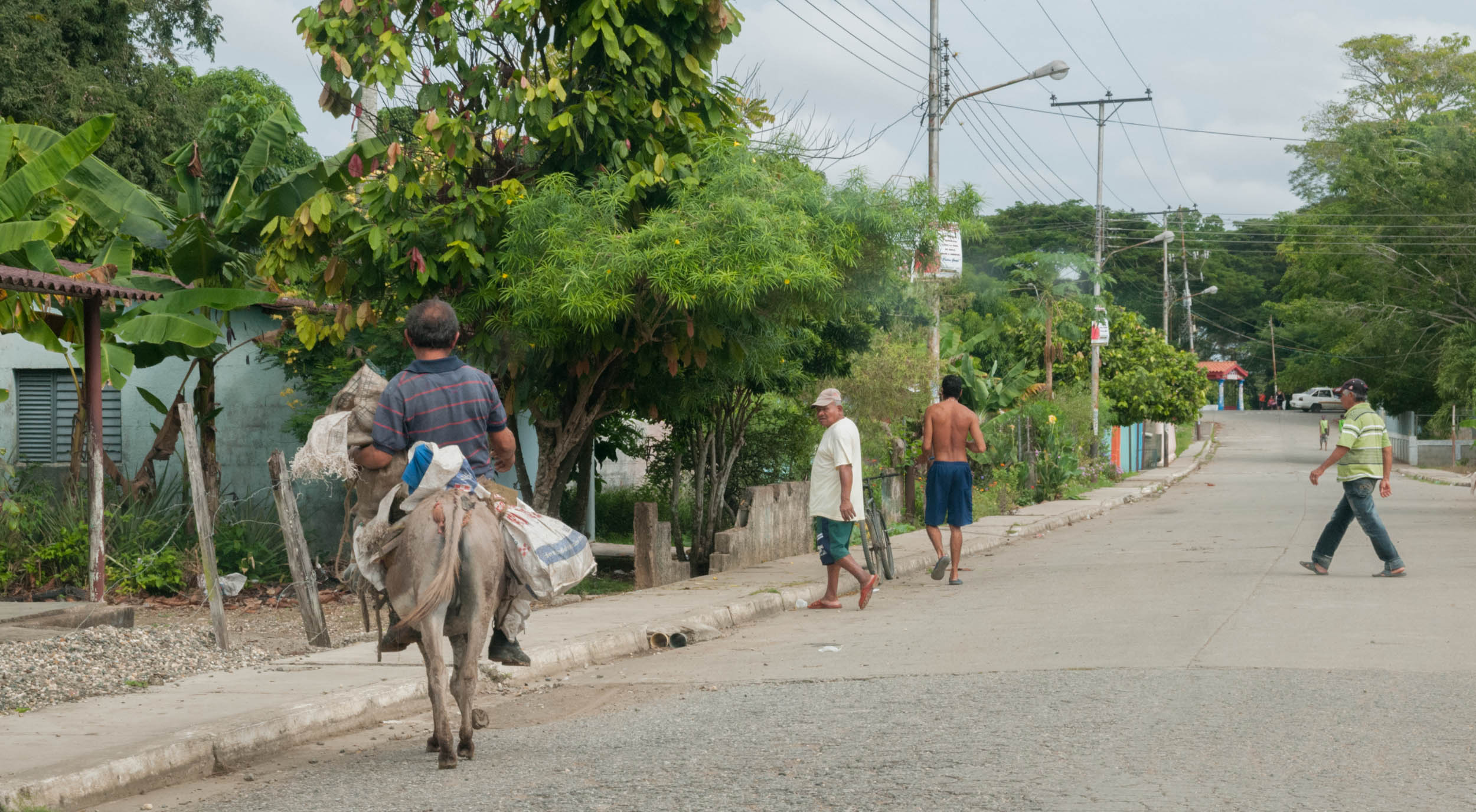 Hamlet Chaguaramal